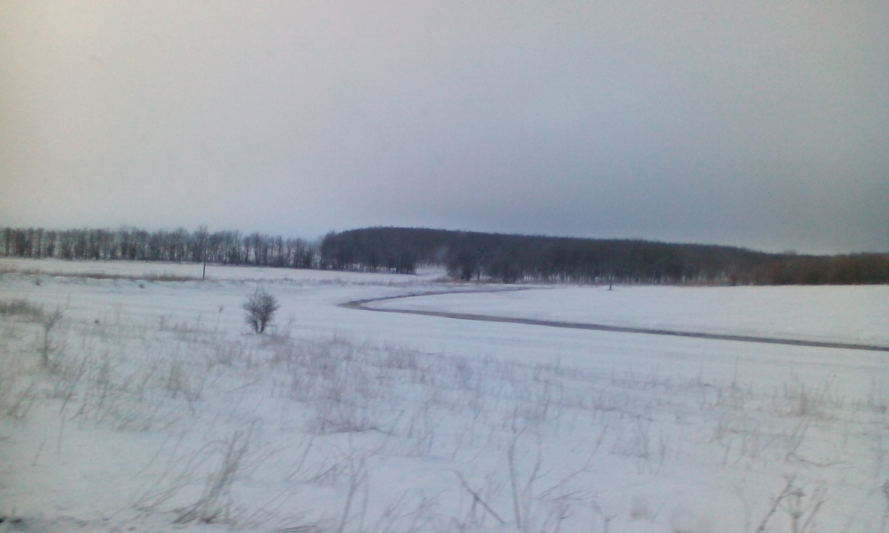 Harsovska river near v. Uaravelovo